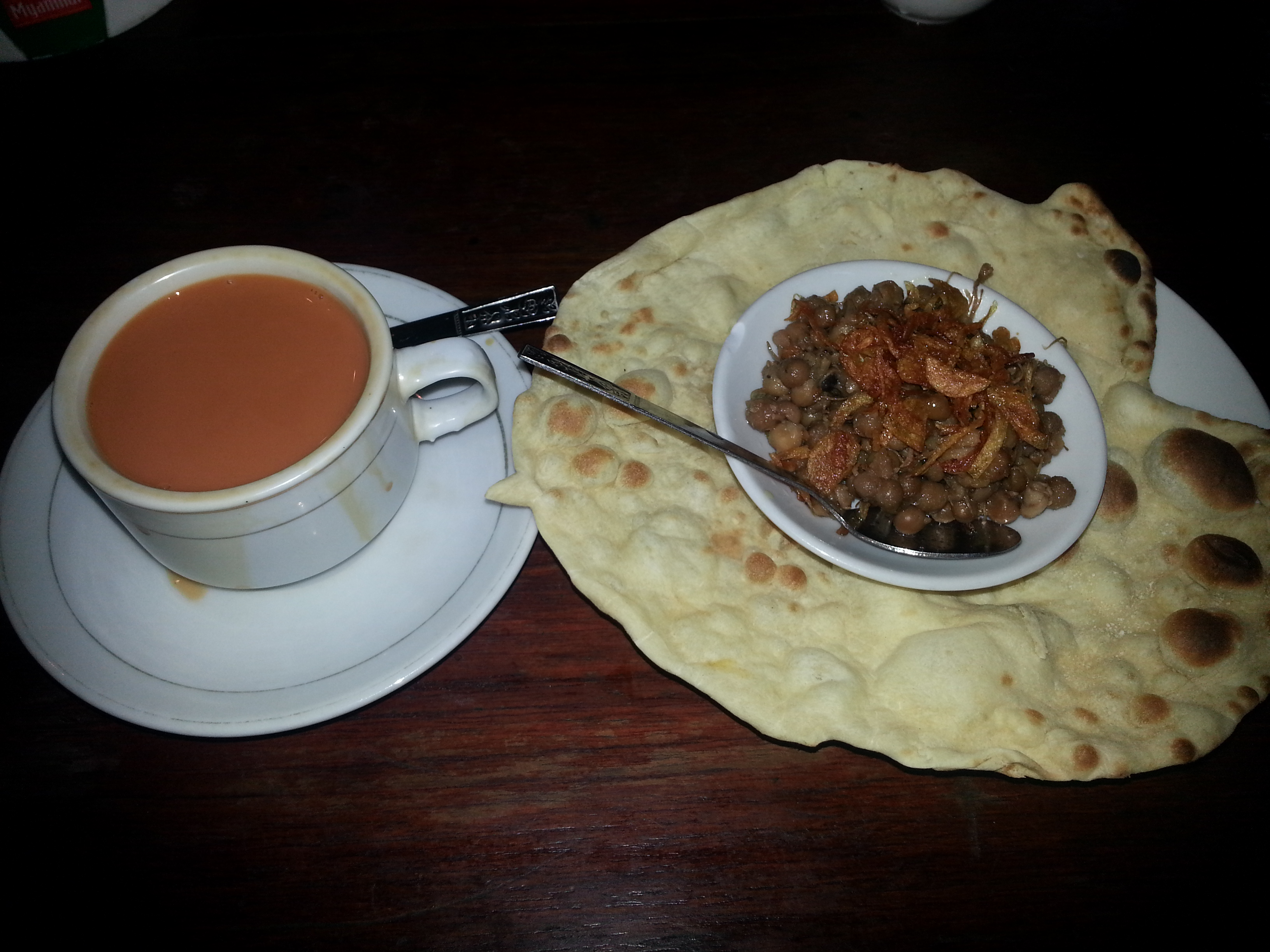 Myanmar Naan with Beans sell in Tea Shop